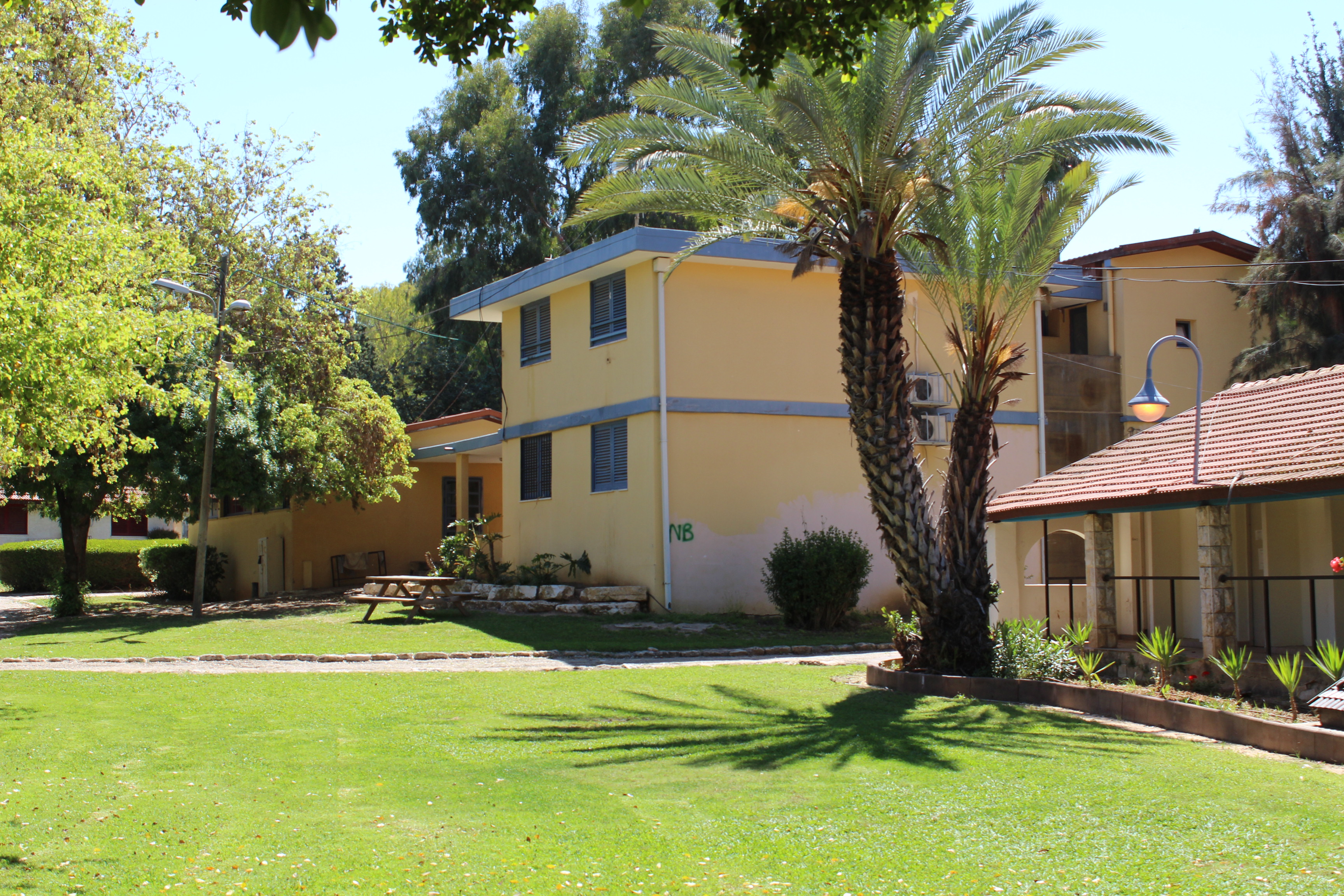 Ben Shemen Youth Village, Israel This image was taken as part of the Elef Millim project trip to the Ben Shemen Youth Village in central Israel which was held on Friday, 11th April 2014. To view all images uploaded as part of the Elef Millim Project